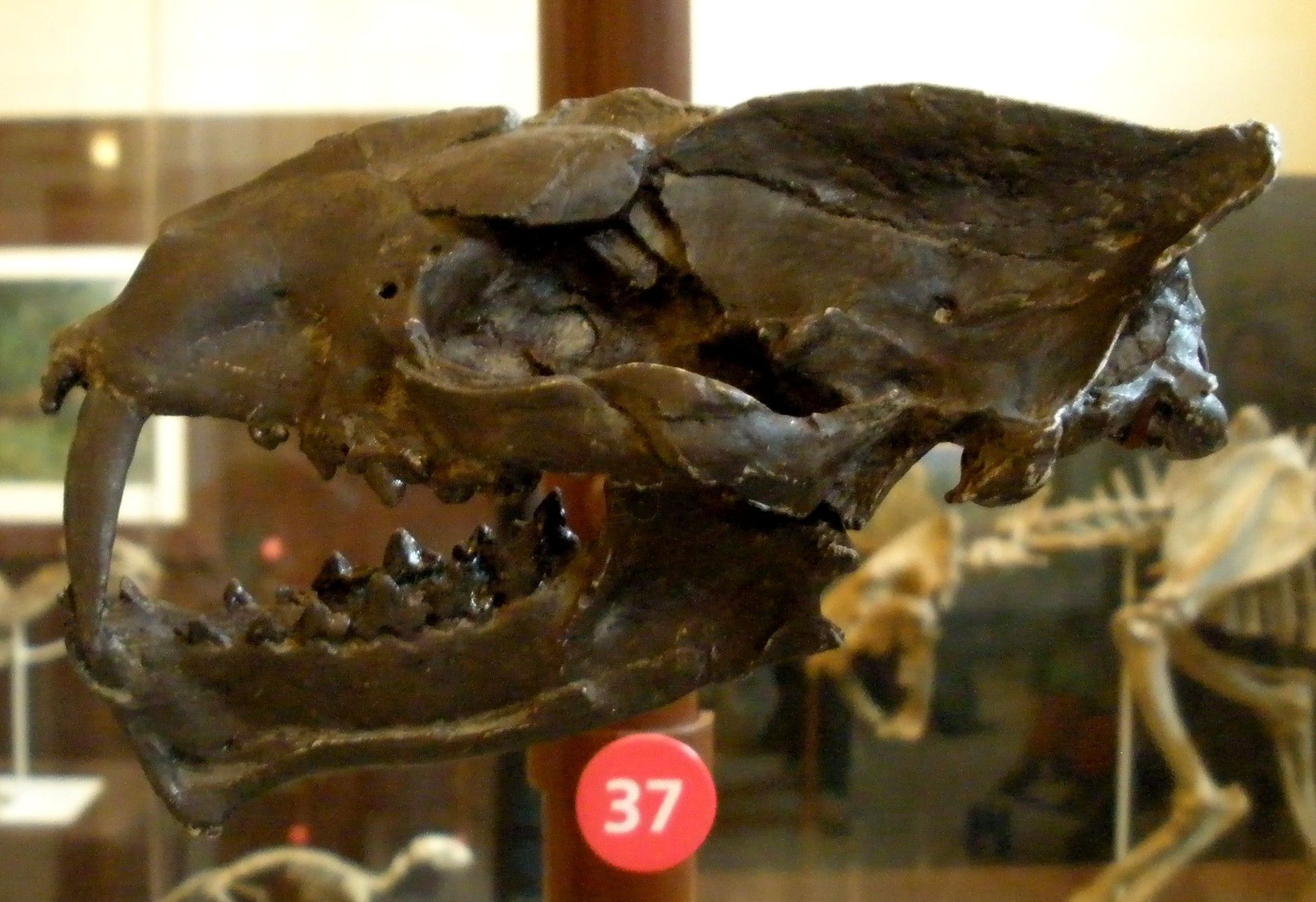 Skull of Machaeroides eothen, a fossil creodont